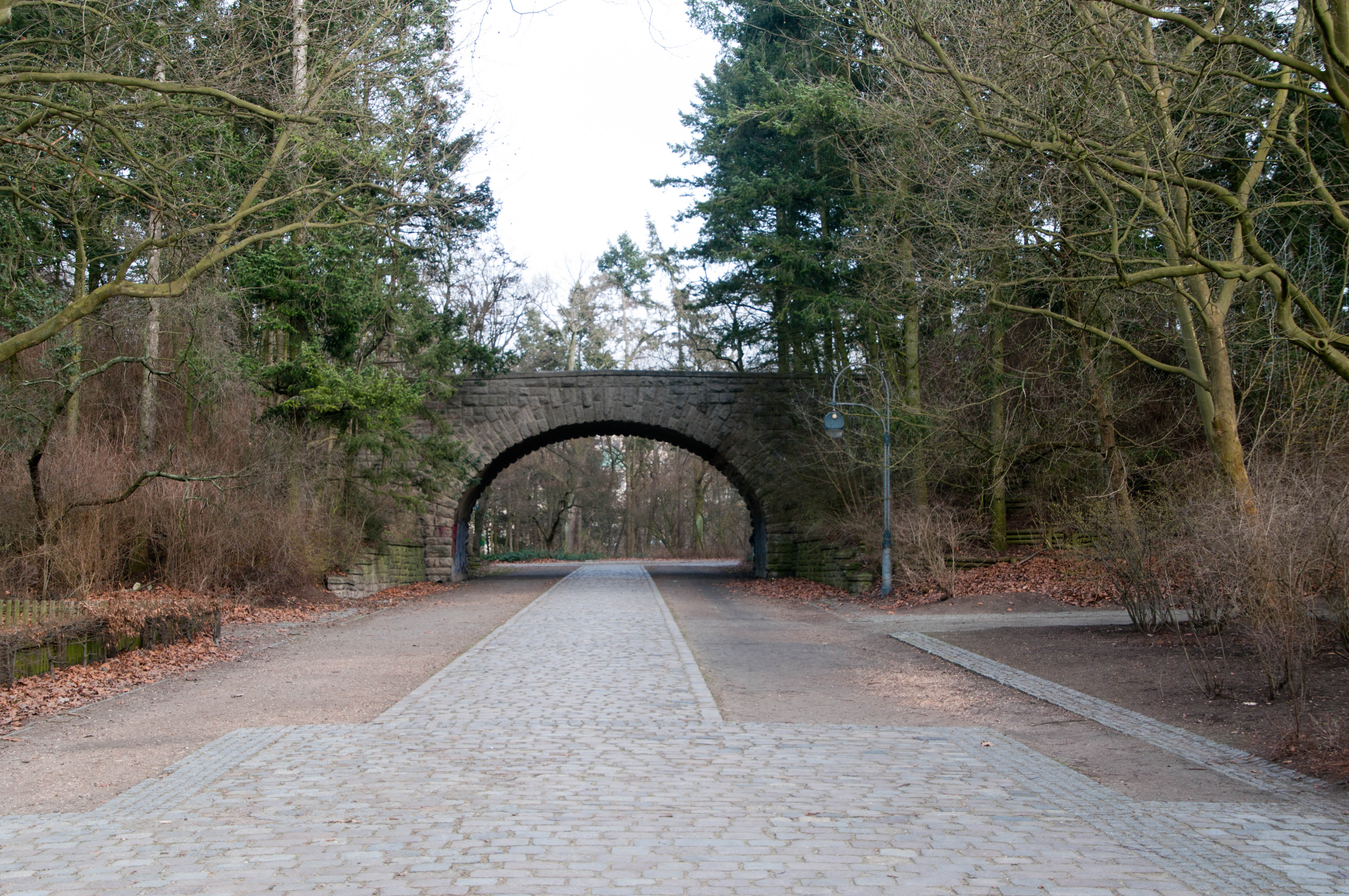 Volkspark Rehberge, Berlin, in March 2016